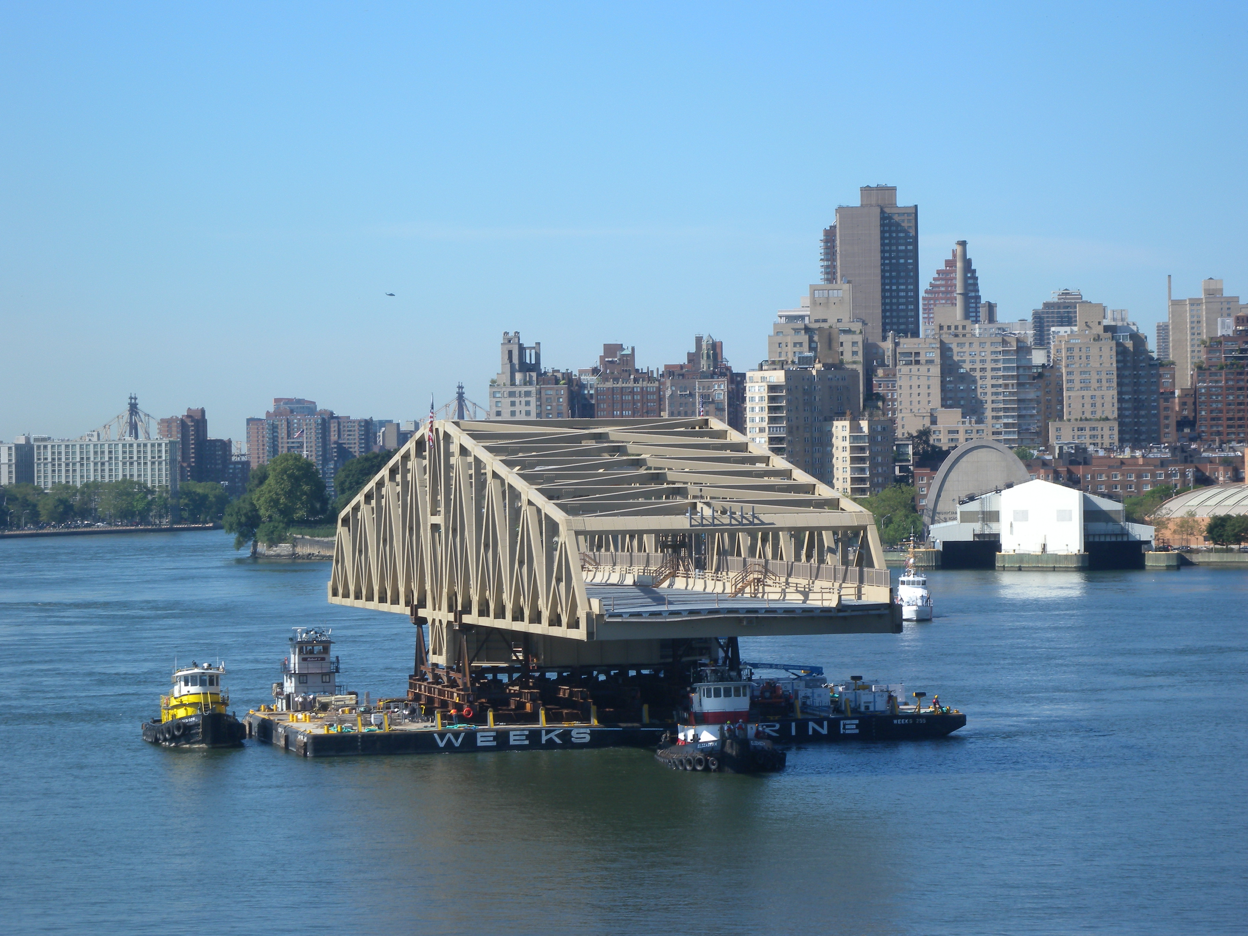 Looking down and southwest, full zoom, as Willis Avenue Bridge passes Municipal Asphalt Plant.